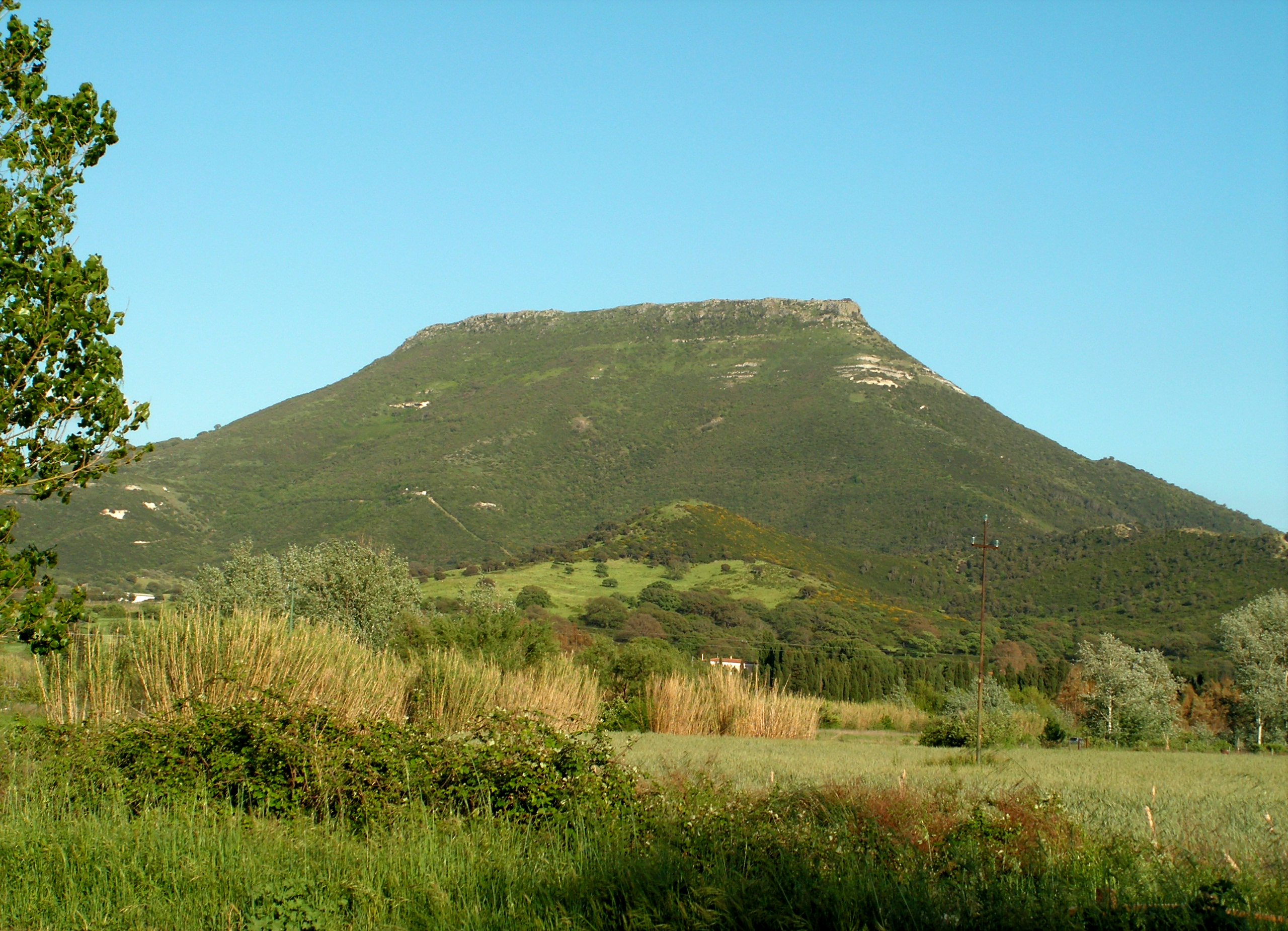 Monte Santo (inactive volcano) Logudoro Sardinia